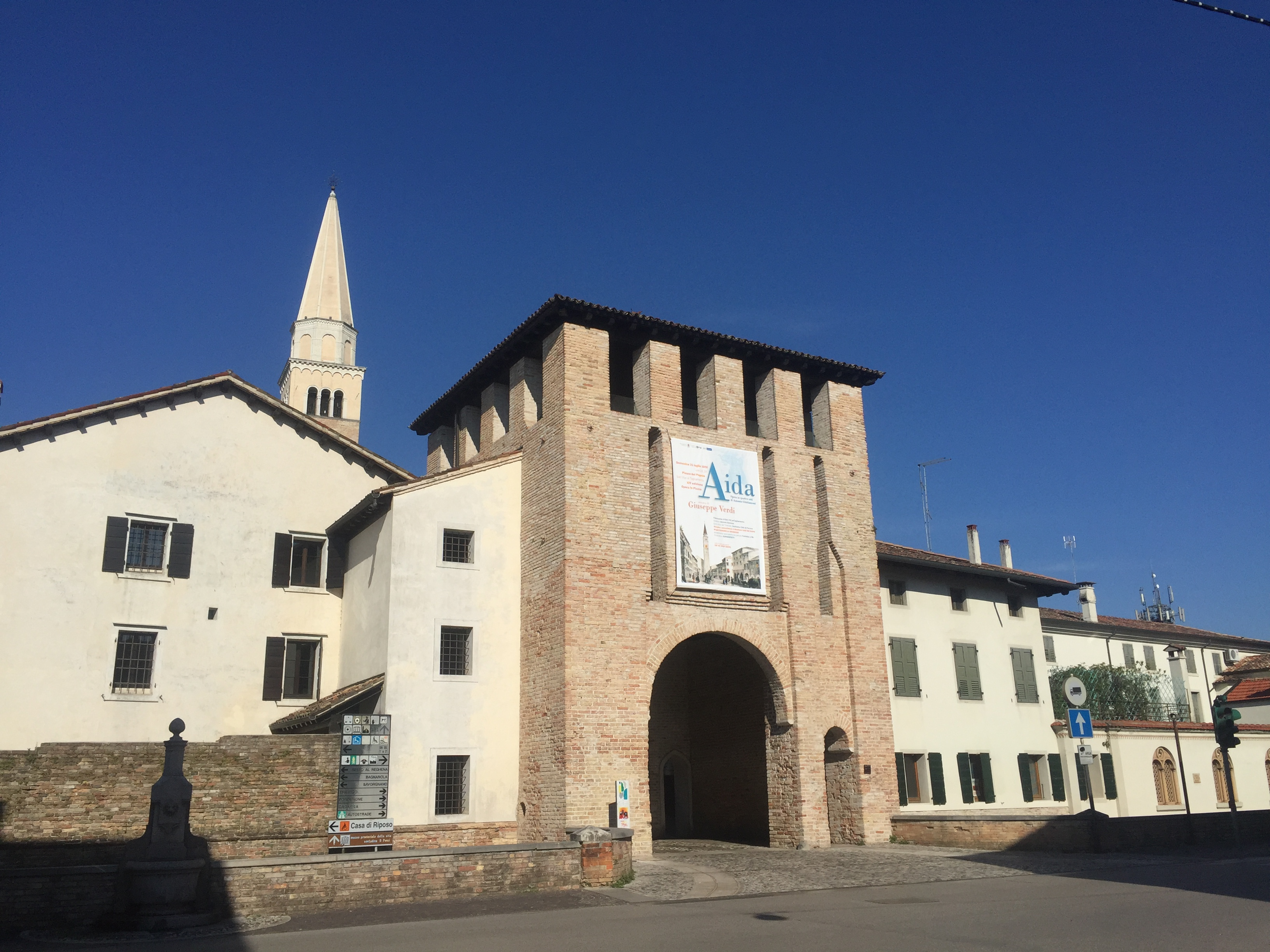 Eastern city gate of San Vito al Tagliamento